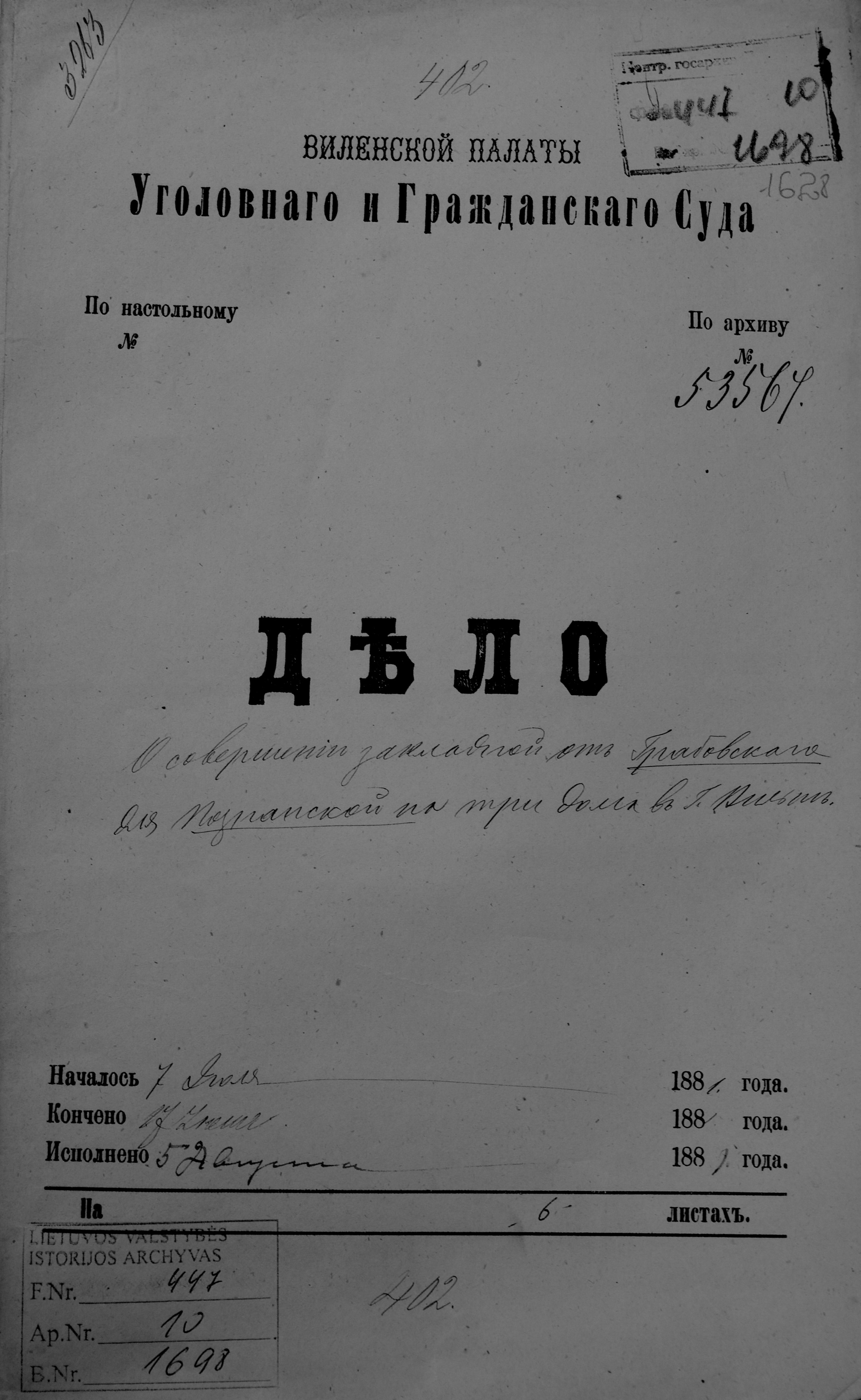 The cover of a civil case dealt with at the Vilnius Joint Civil and Criminal Court in 1881. Photography